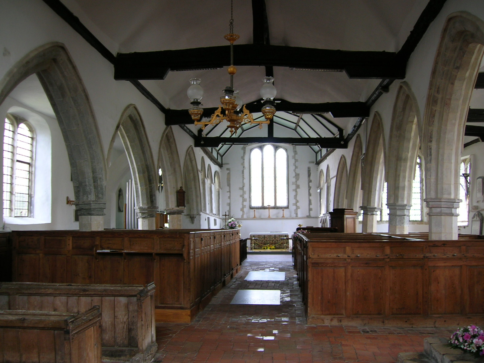 St Augustine, Brookland, interior, looking east